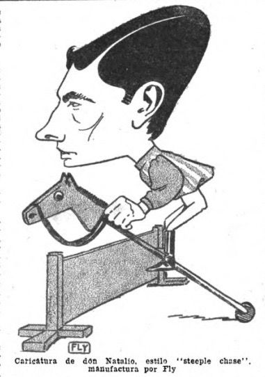 Caricature of Natalio Cirilo Banegas by Fly. Fray Mocho Magazine, issue number 118, 31|VII|1914, Pg. 70